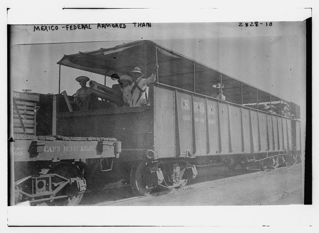 Bain News Service,, publisher. Mexico- Fed. Armored train between ca. 1910 and ca. 1915 1 negative : glass ; 5 x 7 in. or smaller. Notes: Title from unverified data provided by the Bain News Service on the negatives or caption cards. Forms part of: George Grantham Bain Collection (Library of Congress). Subjects: Mexico Format: Glass negatives. Repository: Library of Congress, Prints and Photographs Division, Washington, D.C. 20540 USA, General information about the Bain Collection is available at Persistent URL: Call Number: LC-B2- 2828-10